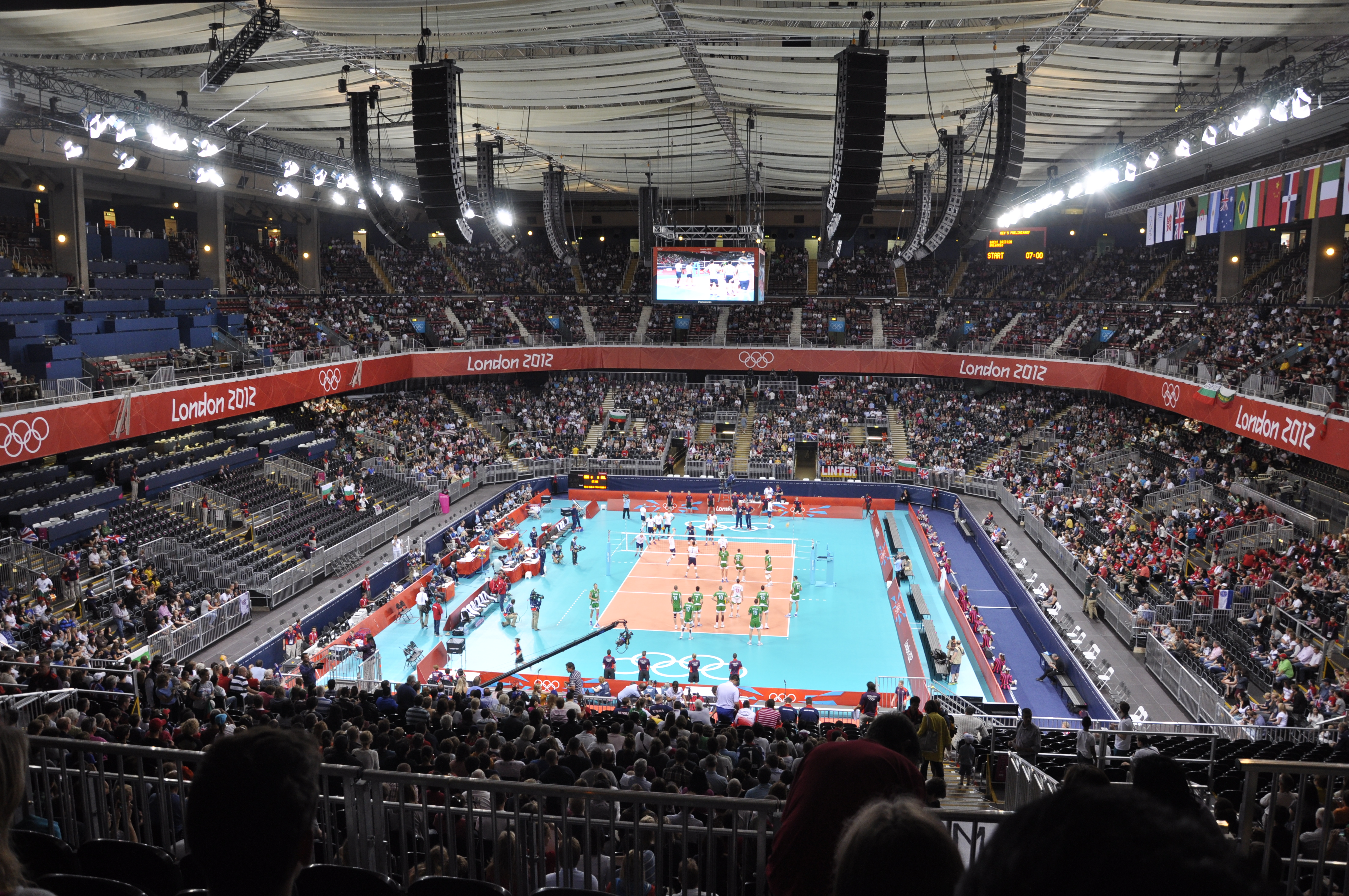 London Olympic 2012